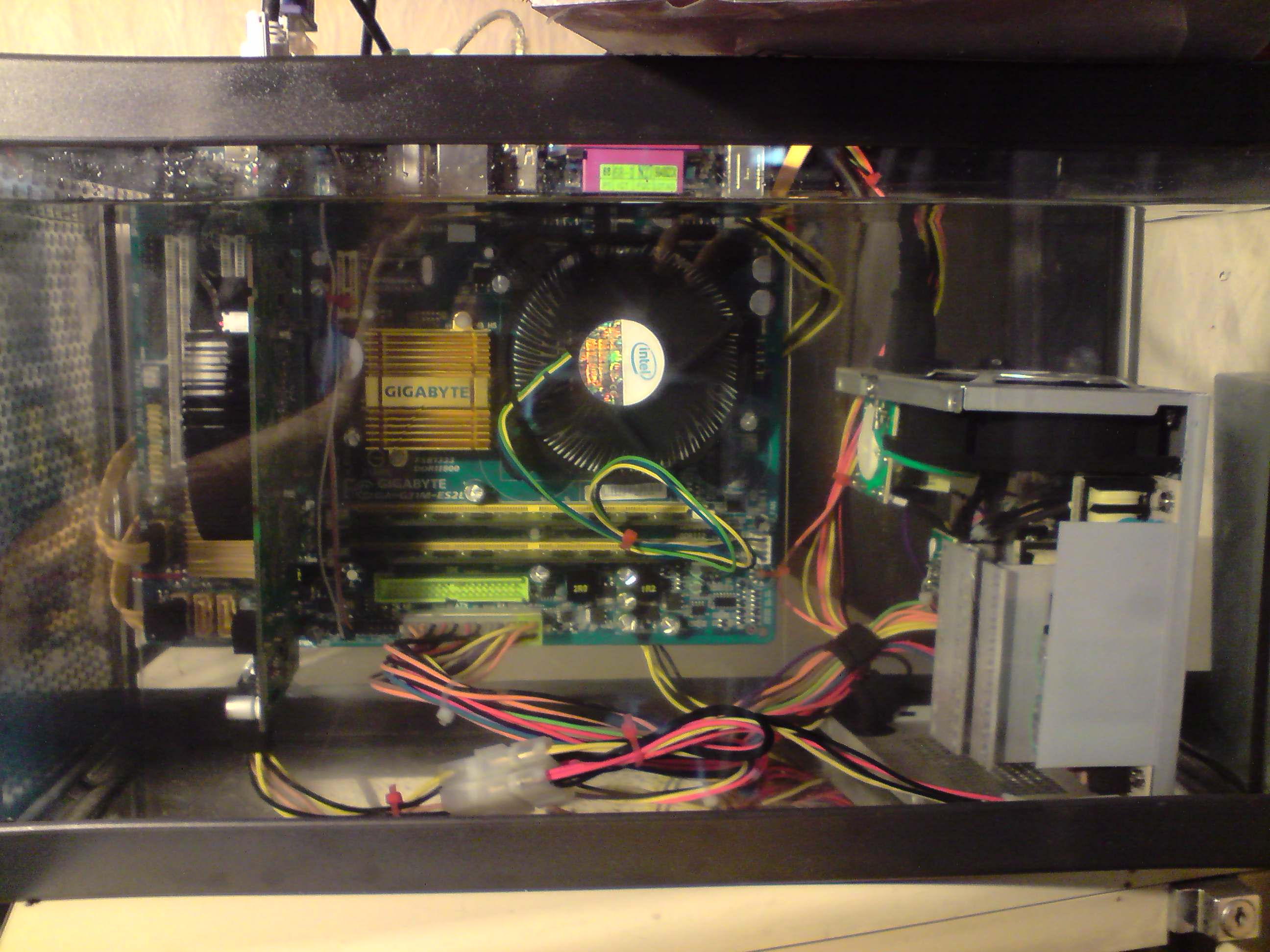 Example of computer oil cooling